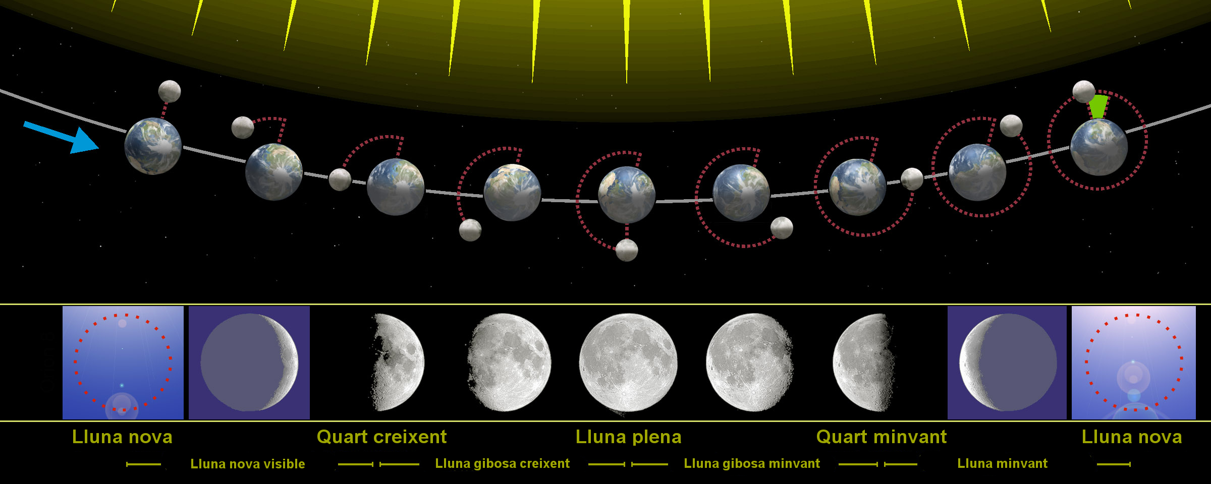 The relation of the phases of the Moon with its revolution around Earth. The sizes of Earth and Moon, and their distance you see here are far from real. On this image the following are also depicted: the synchronous rotation of the Moon, the motion of the Earth around the common center of mass, the difference between the sidereal and synodical month (green mark), the Earth's axial tilt. (NOTE: the precise moment of a New Moon take place in daylight when you can see only the bright Sun.)